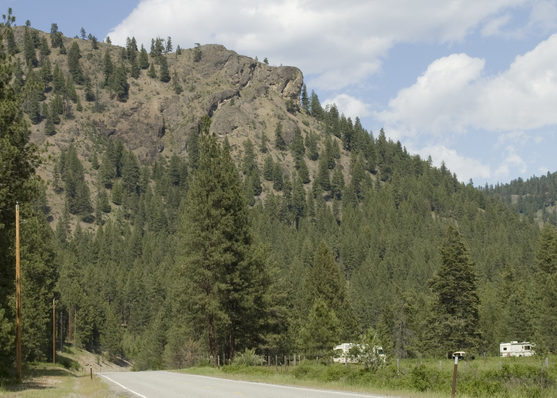 A photograph of a hill near Republic, WA. This is along the Sanpoil River.